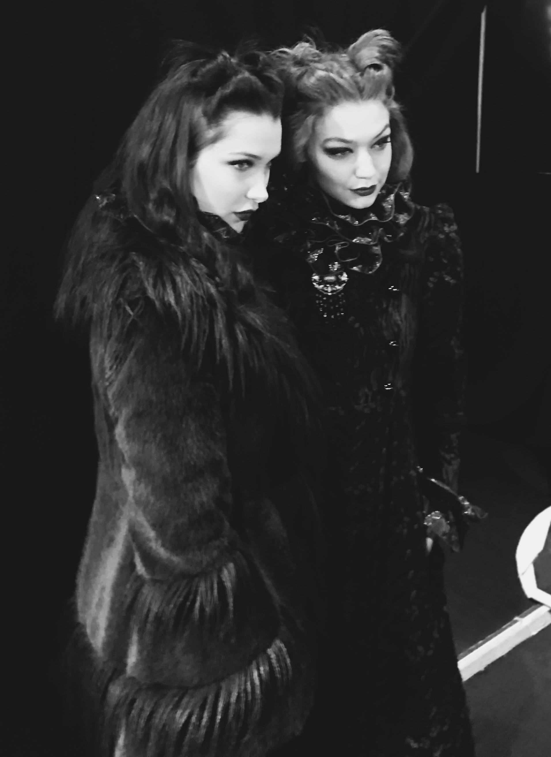 Bella Hadid and Gigi Hadid pose for cameras backstage at the Anna Sui Fall Winter 2017 show at New York Fashion Week, Skylight Clarkston Square, February 15, 2017.